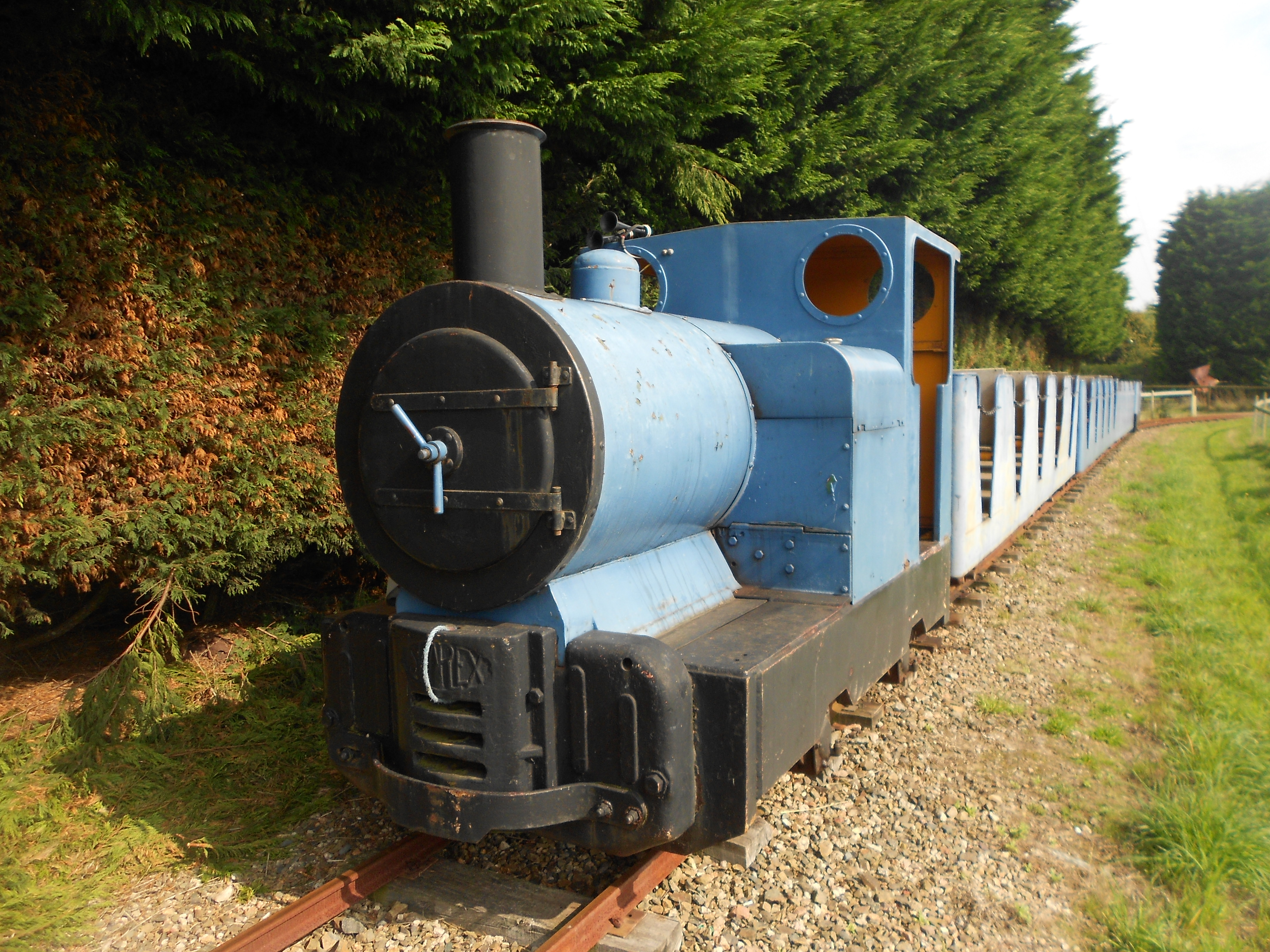 The Simplex locomotive on the narrow gauge railway at the Pallot Steam Museum, Jersey, Channel Islands.